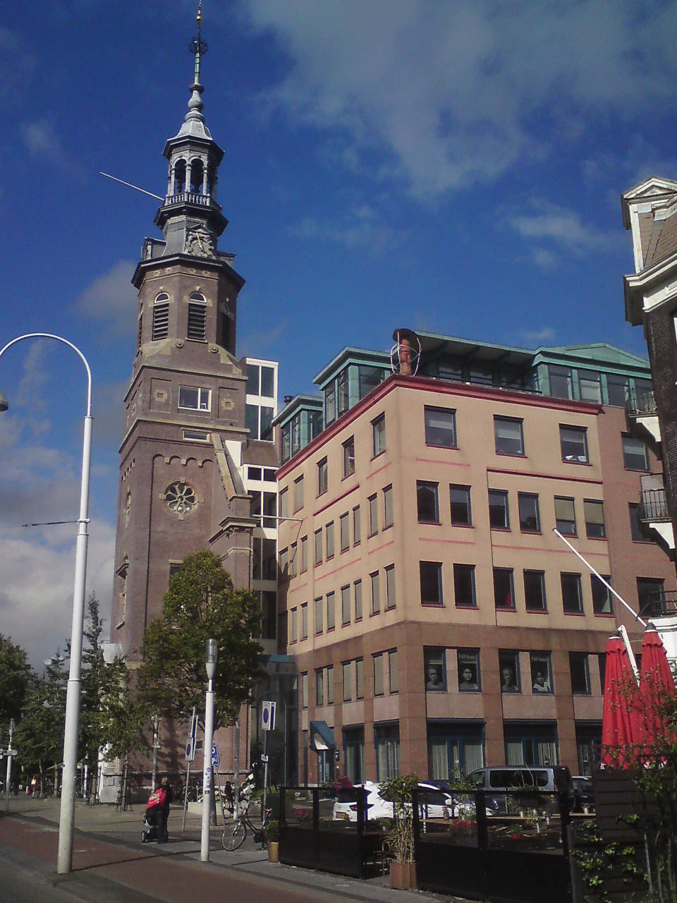 The Muiderkerk (Muiderchurch) in Amsterdam. Across the street of Oosterpark and Tropenmuseum.